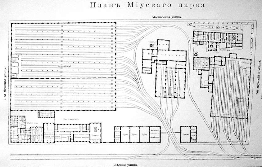 Meeussky tram depot General plan